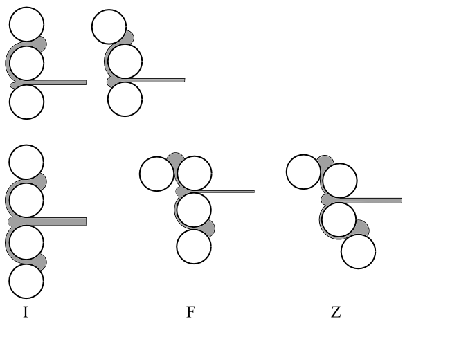 Some examples for calender roll layout. (At least for rubber industry) I-calender, F-calender, Z-calender